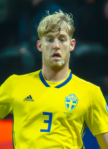 UEFA EURO qualifiers Sweden vs Romaina 20190323